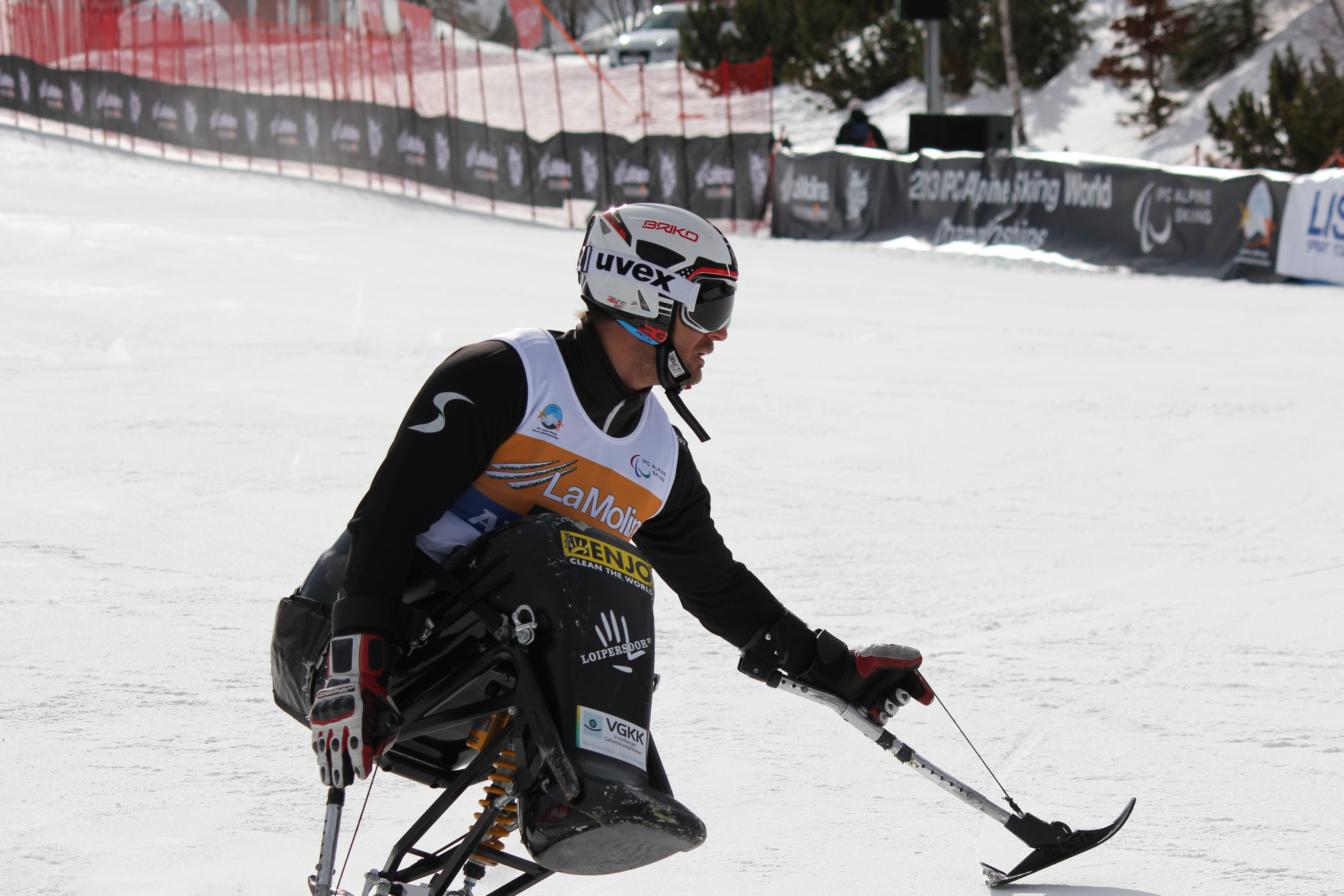 2013 IPC Alpine World Championships in La Molina, Spain on Super combined competition day for the first run in the men's sitting event.